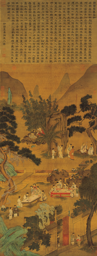 Literary Gathering in the Western Garden Attributed to Zhao Mengfu (1254-1322), Yuan dynasty Hanging scroll, ink and colors on silk, 131.5 x 67 cm